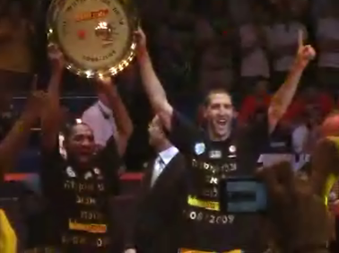 Derrick Sharp and Tal Burstein With The 2009 Ligat Ha'Al Championship.